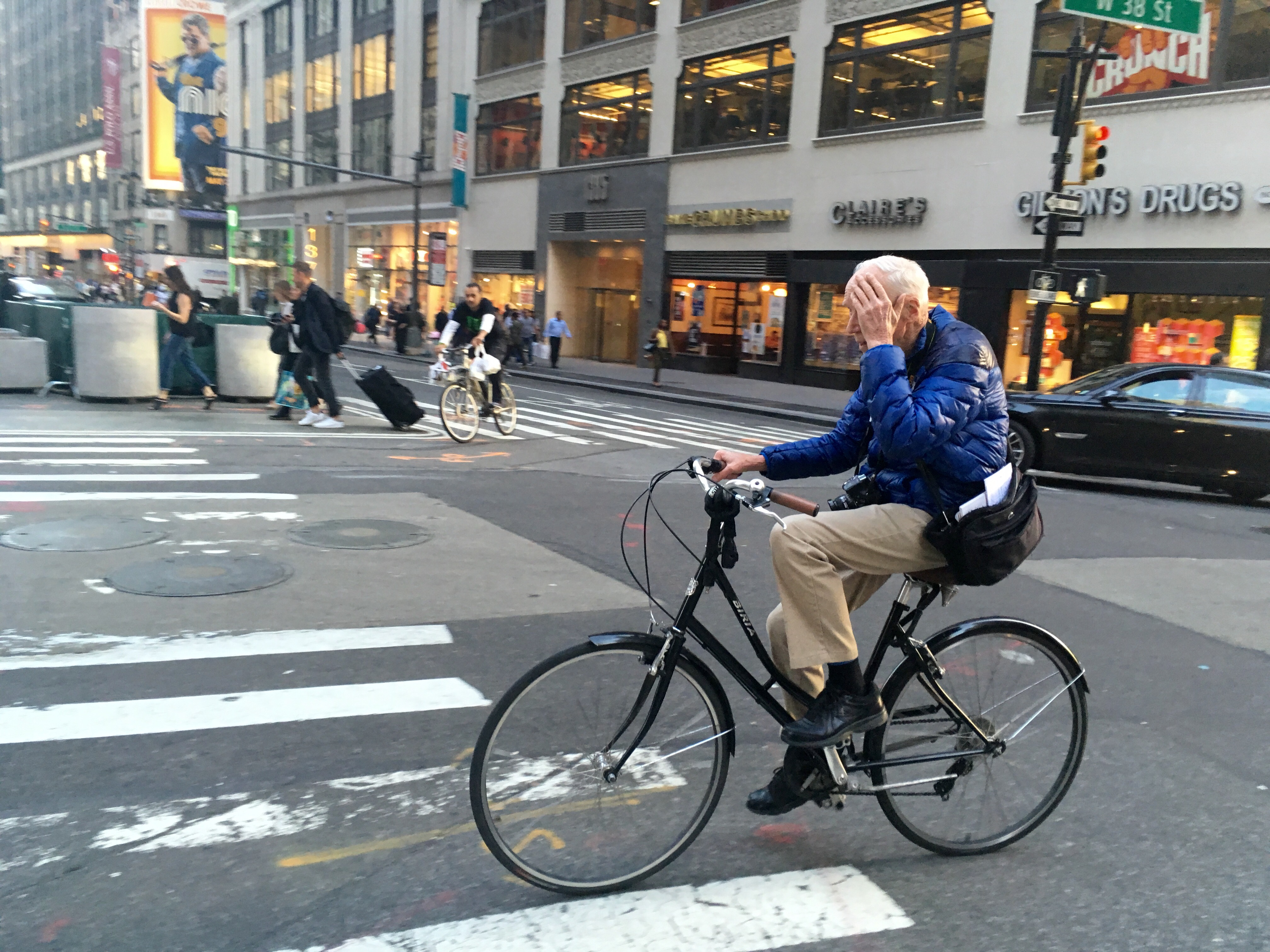 Bill Cunningham cruising the streets on this bike in Midtown on May 12th, 2016, a month before he passed away. Bill covered his face when this photographer yelled, "Bill, smile!"